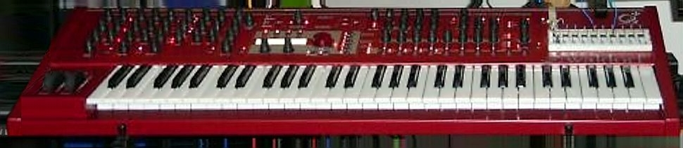 Waldorf Q+ red